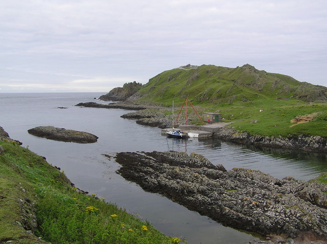 Inishtrahull Landing A small inlet offering shelter from the Atlantic swell on this beautiful uninhabited island. The northern most part of Ireland